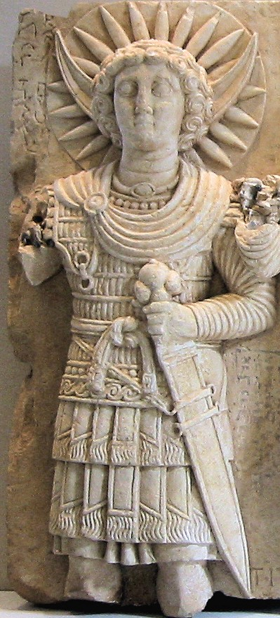 This is a cropped photograph showing Aglibol, the Palmyrene god of the moon.